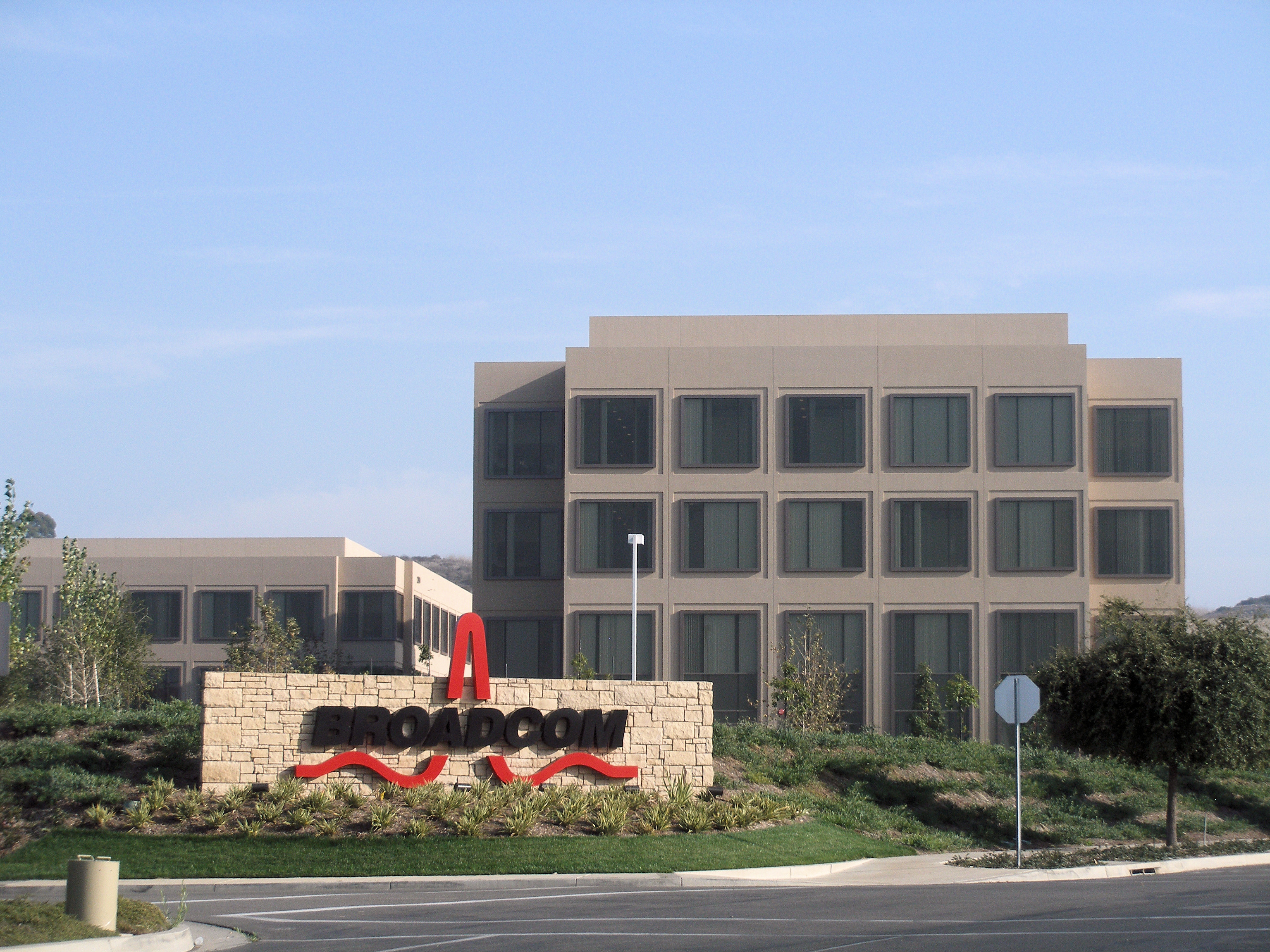 Corporate headquarters of Broadcom